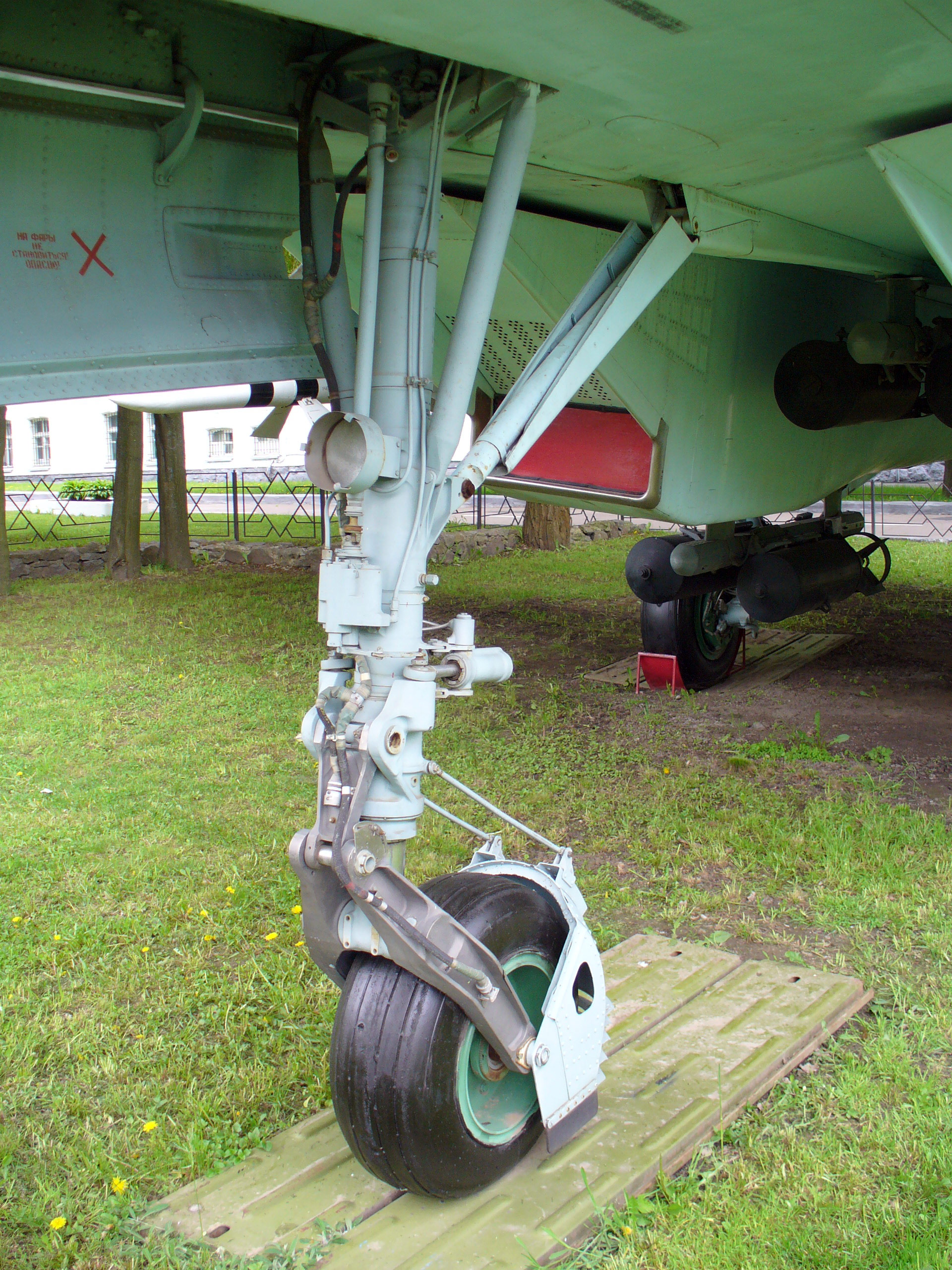 The Sukhoi Su-27 (NATO reporting name "Flanker"). Ukrainian Air Force Museum in Vinnitsa.